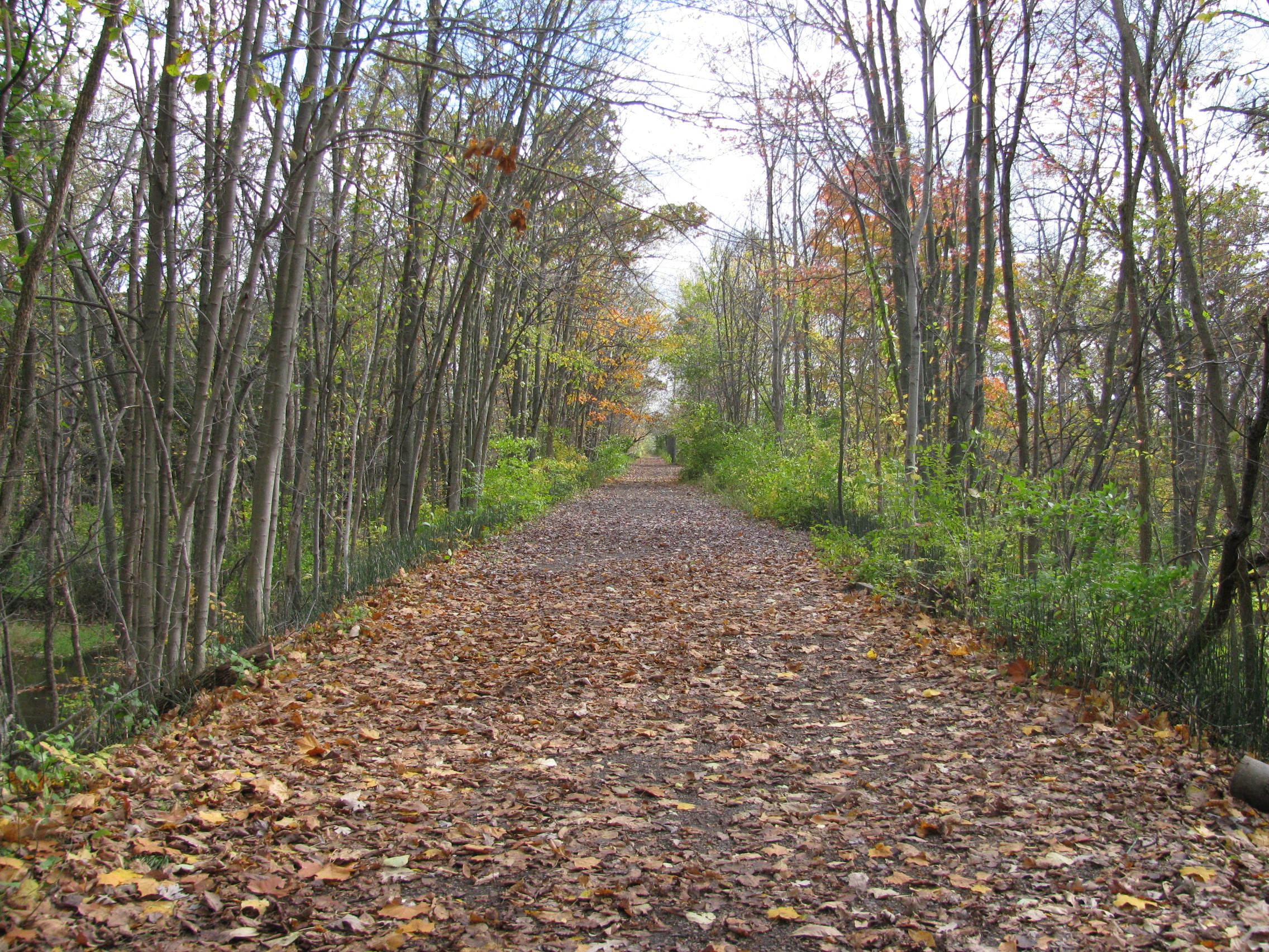 Nature trail at Yates Cider Mill.